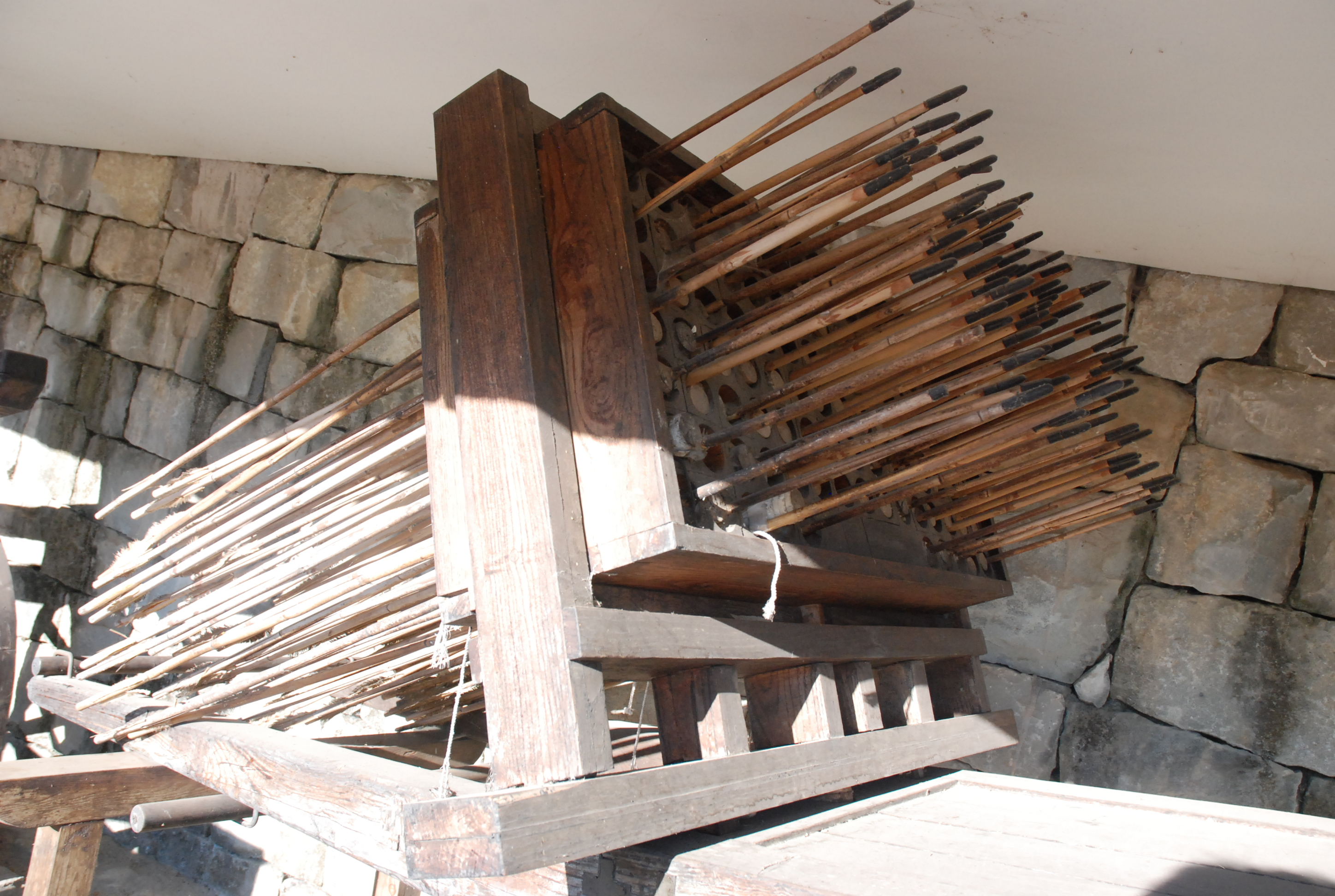 Shinkigeon-style Hwacha can fire 100 arrows at a time